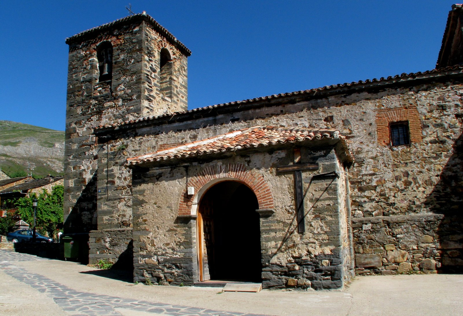 San Ildefonso church of Valverde de los Arroyos (Guadalajara, Spain).